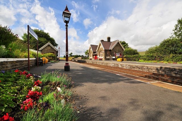 Horton-in-Ribblesdale railway station A beautifully well-kept station which looks particularly fine in Summer with the flowers in bloom.